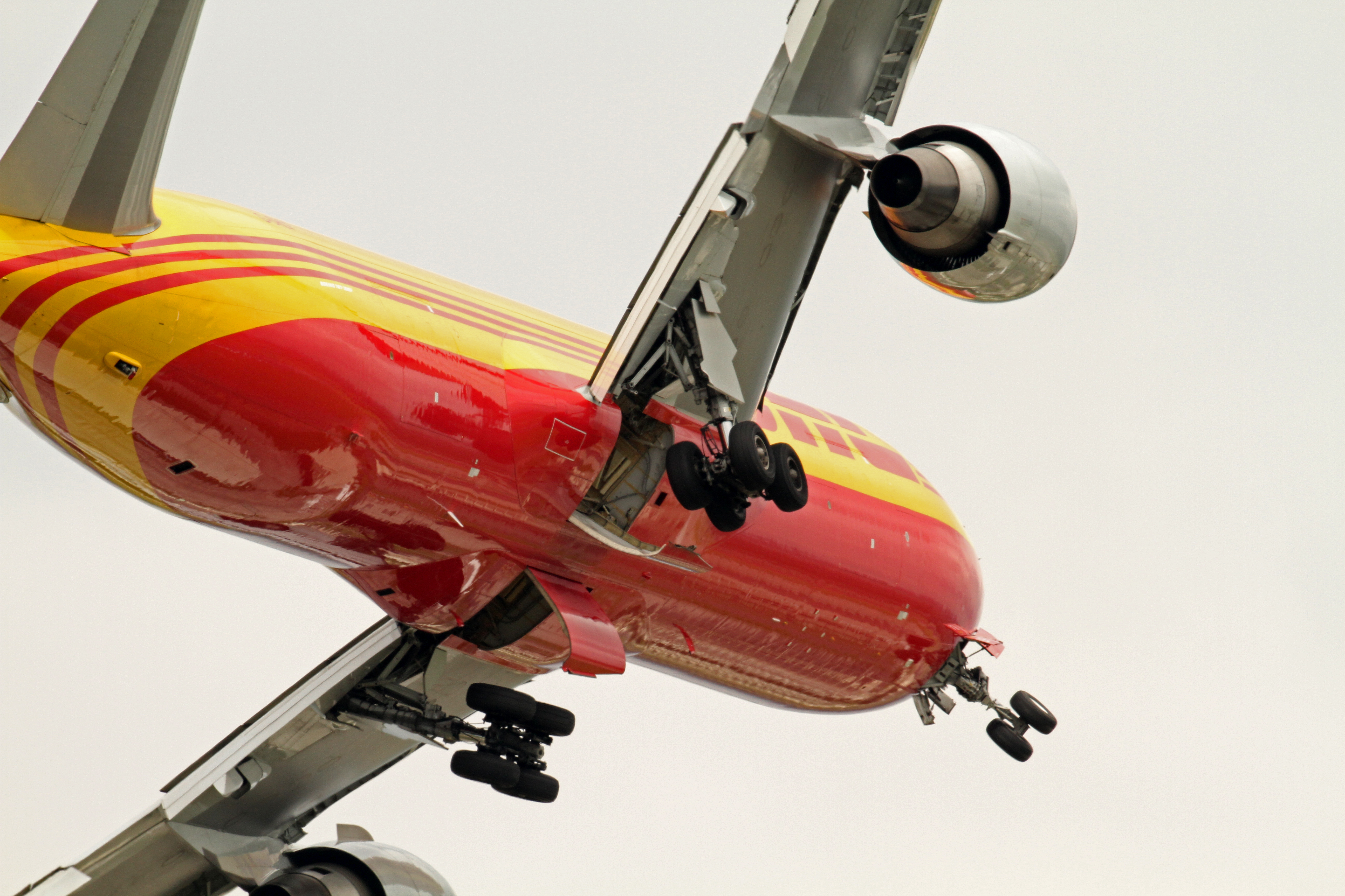 DHL Boeing 767 during a flight demonstration at RIAT 2012